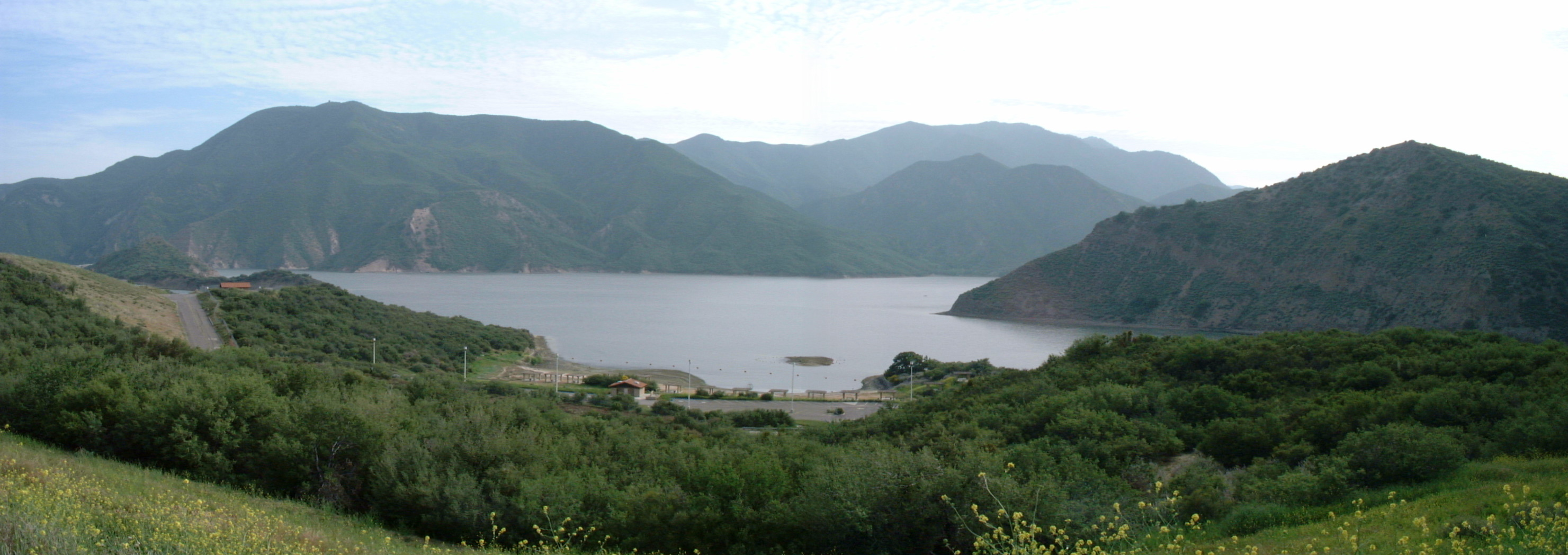 Description:A stitched panorama of two images of Pyramid Lake, in the San Emigdio Mountains, Southern California.Photographer:David BallDate:June. 2003Permissions:GFDL: Please attribute the photographer and, if used on the web, link to his web site. Mactographer, the copyright holder of this work, hereby publishes it under the following license: Attribution: Mactographer